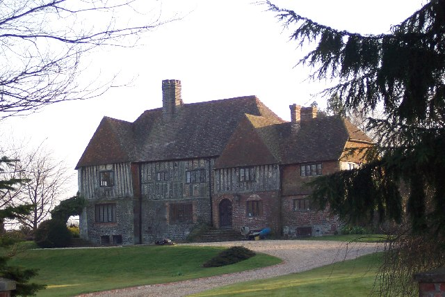 Goleigh Manor House, north of Priors Dean, Hampshire